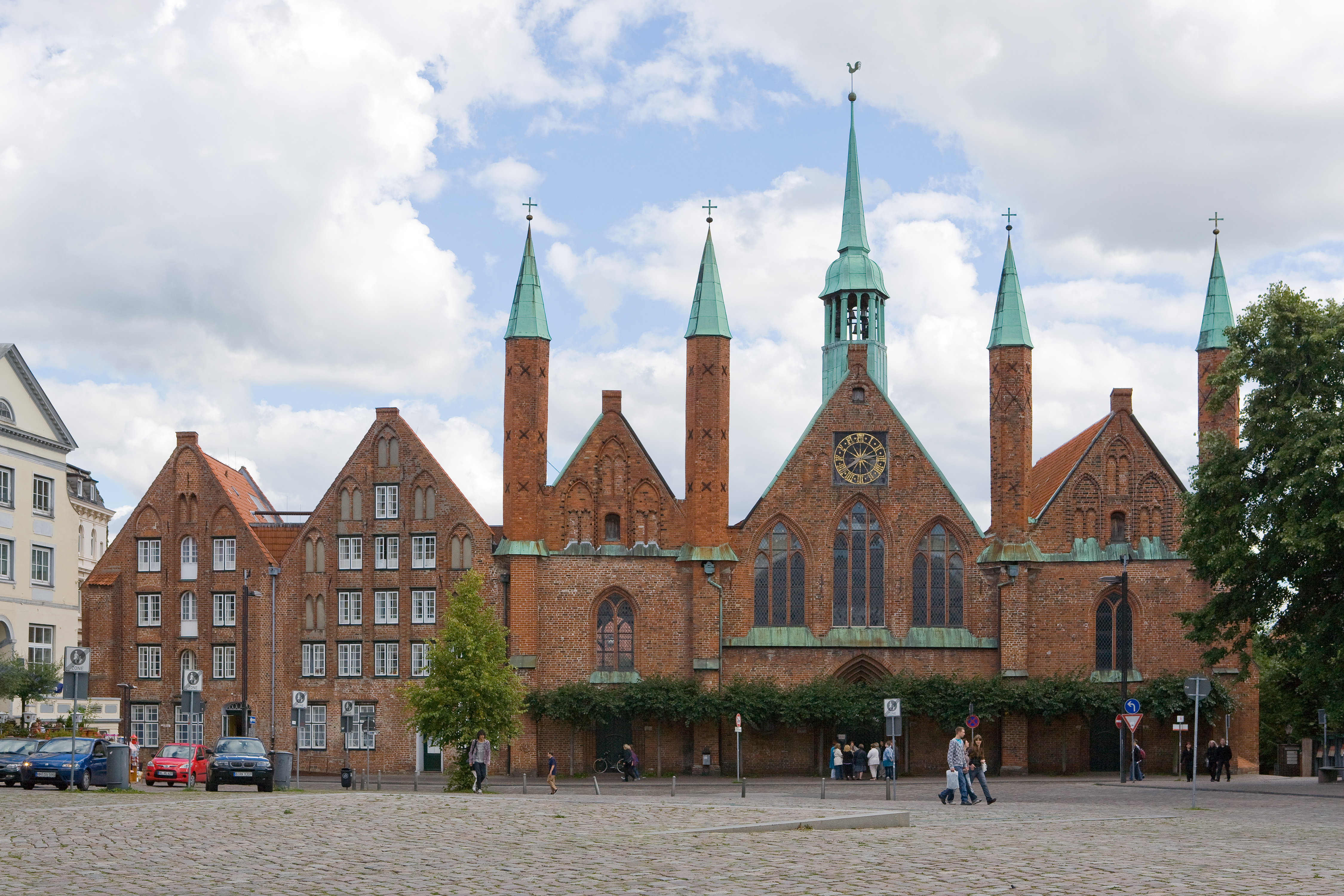 Lübeck: Heiligen-Geist-Hospital (Hospital of the Holy Spirit) as seen from the west